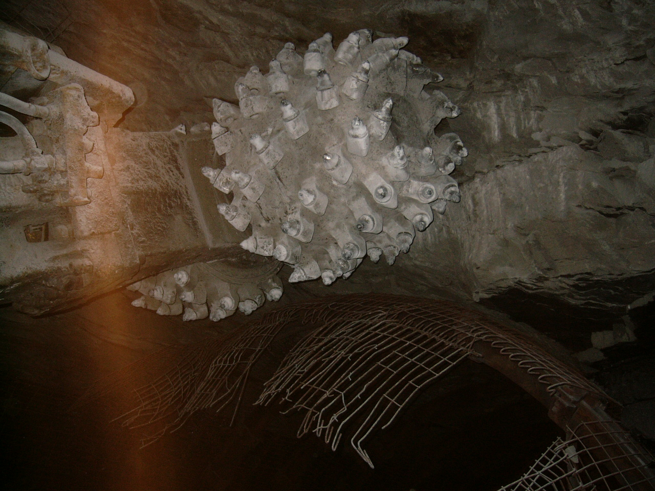 arm of roadheader with cutting head